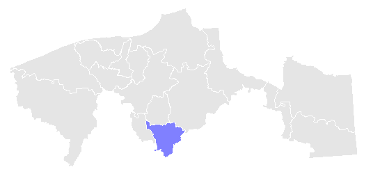 Tacotalpa, Tabasco. Hecho con Microsoft Paint